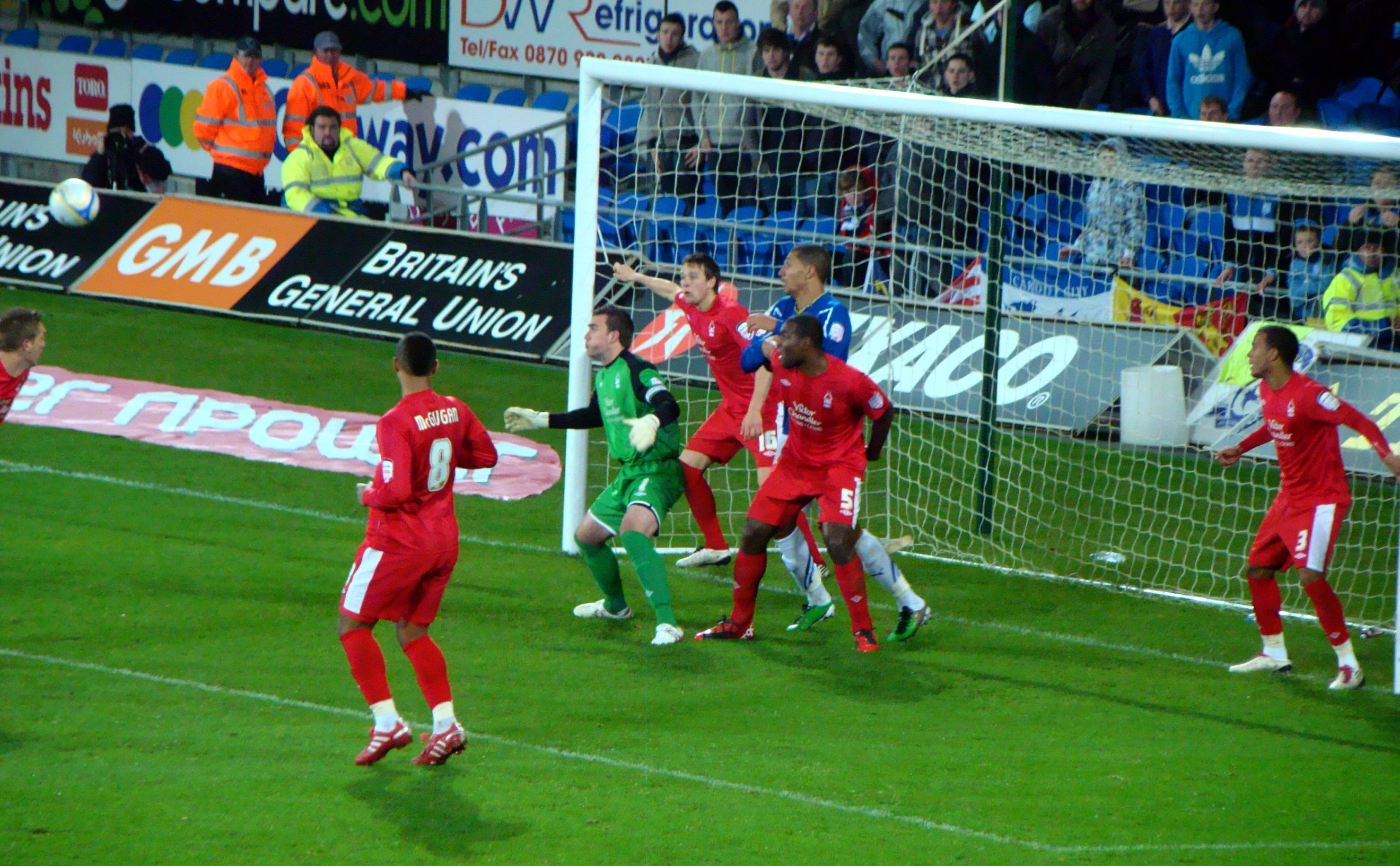 20/11/10 Cardiff V Nottingham Forest, Championship, Cardiff City Stadium, Cardiff, Wales